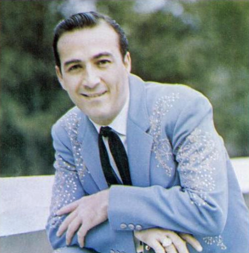 Trade ad for Faron Young.To better adapt it to his respective Wikipedia article, the ad was cropped and cleaned in a graphics editing program. The original can be viewed at the source below.